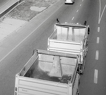 Cropped from File:Photography Rule -76.jpg. Original caption: Photography Rules! If you would like to make a rule of your own, please do! Add your Photography Rules to the Photography Rules Group